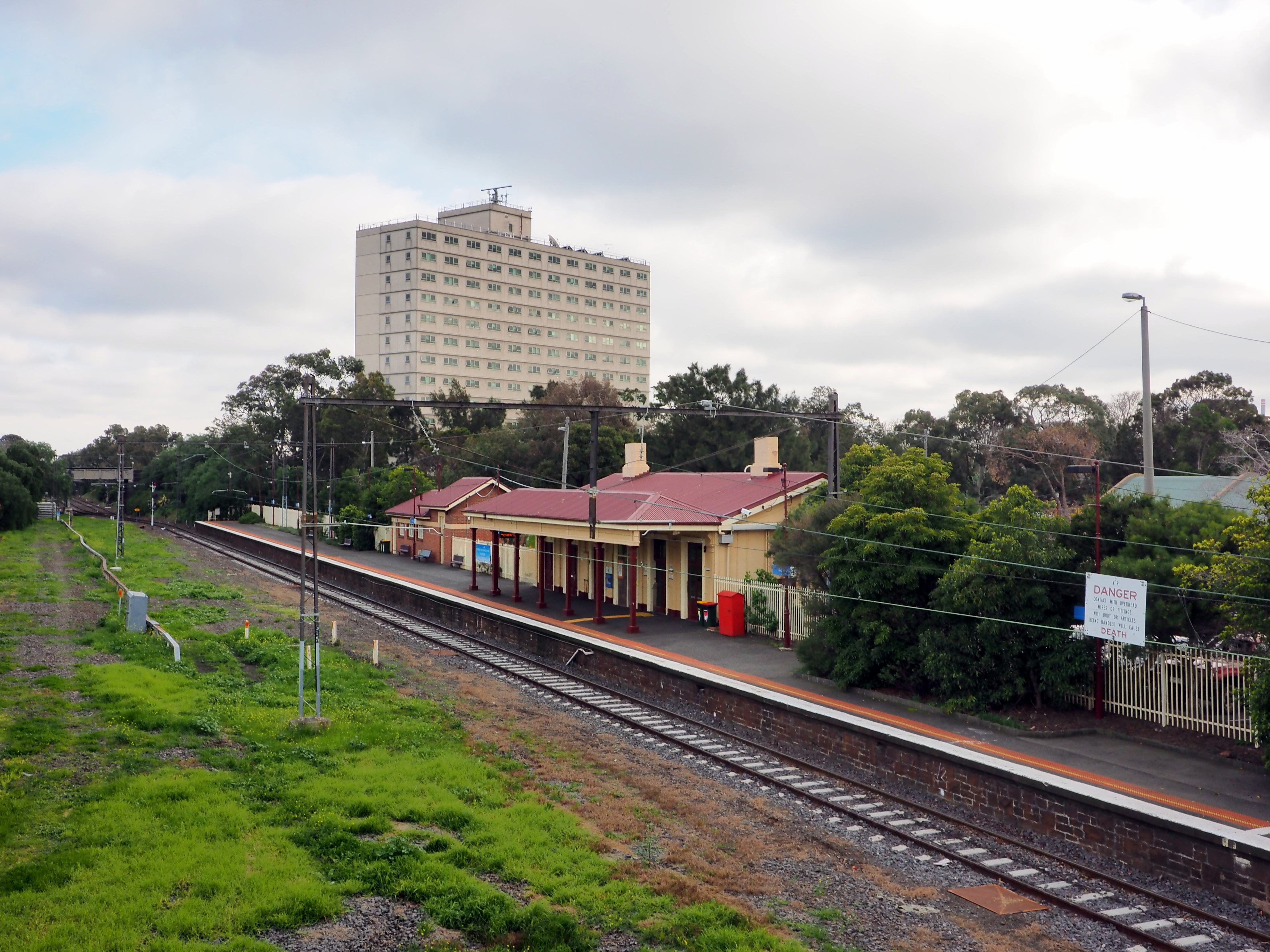 Williamstown Railway Station viewed from the south